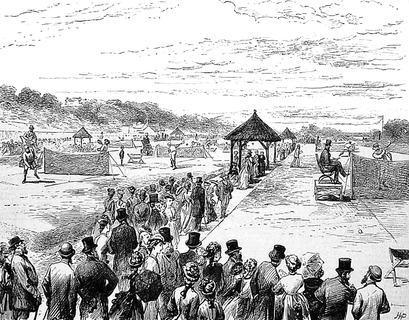 Contemporary engraving of the first Wimbledon Championship at Worple Road, London, in July 1877. Note the higher net (5 ft). The clubhouse is located on the left (in a distance). Worple Road is on the left and on the right is the track of the London and Southampton Railways. The balls were kept in the "mangers" close to the players.